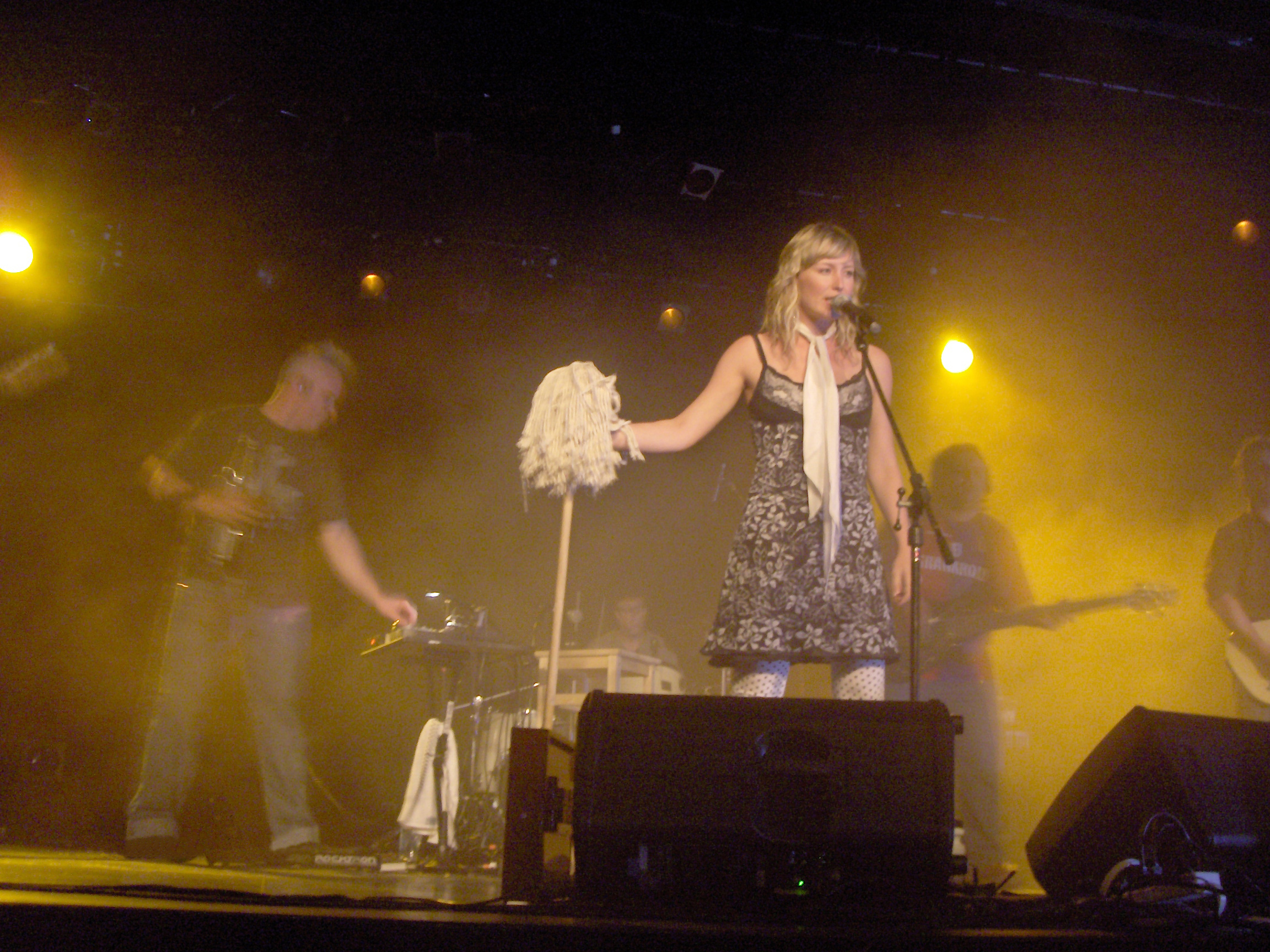 Photo of Caiman Fu frontwoman Isabelle Blais, taken during a performance at the Trois-Pistoles French Immersion School in July 2006.